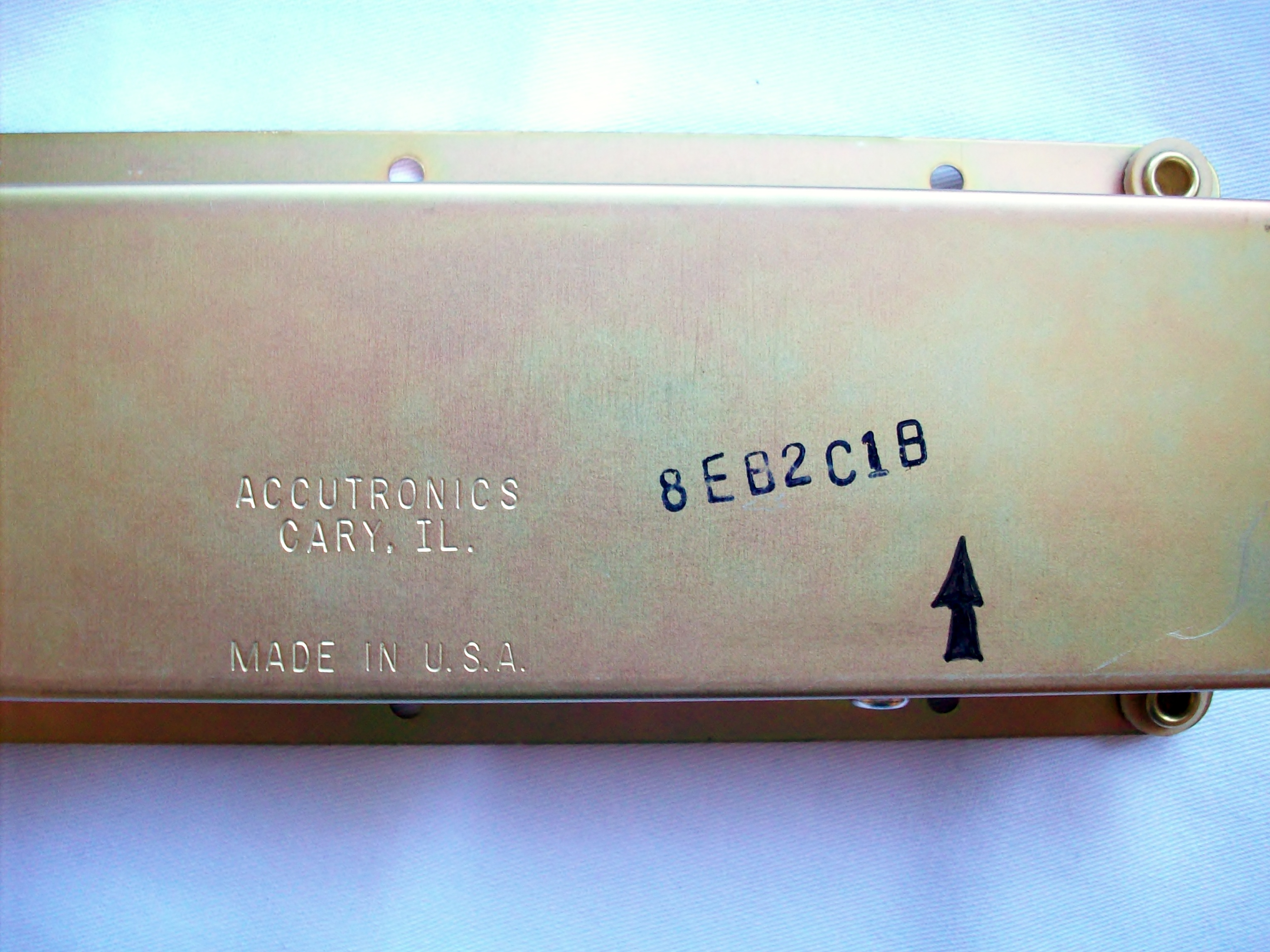 Exterior shot of a Spring Reverb Tank.